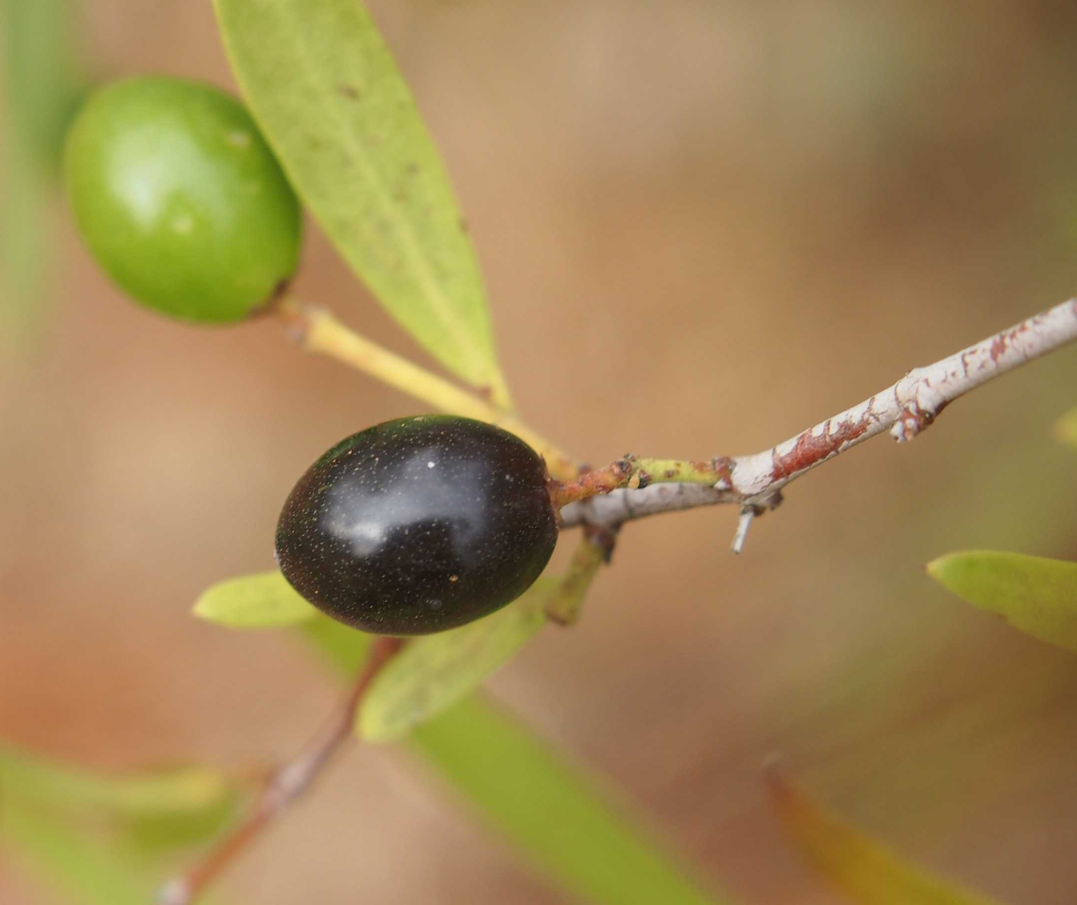 Carissa spinarum var lanceolata fruit